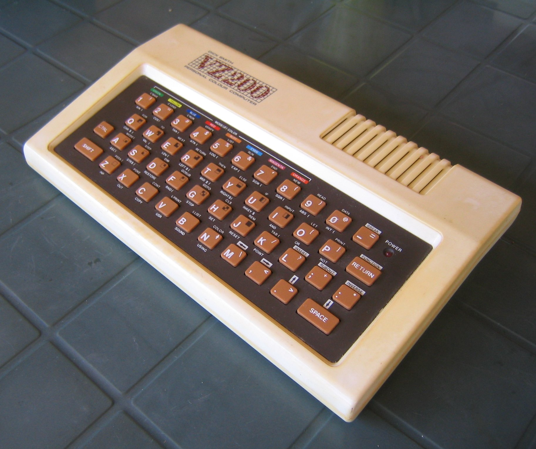 A VZ-200 computer, as sold by Dick Smith in Australia. This is a view of the front with the keyboard visible.